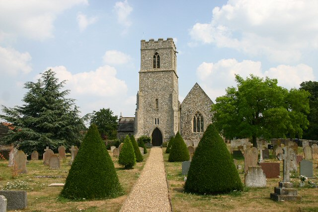 Parish church of SS Laurence and Peter, Eriswell, Suffolk, seen from west-southwest